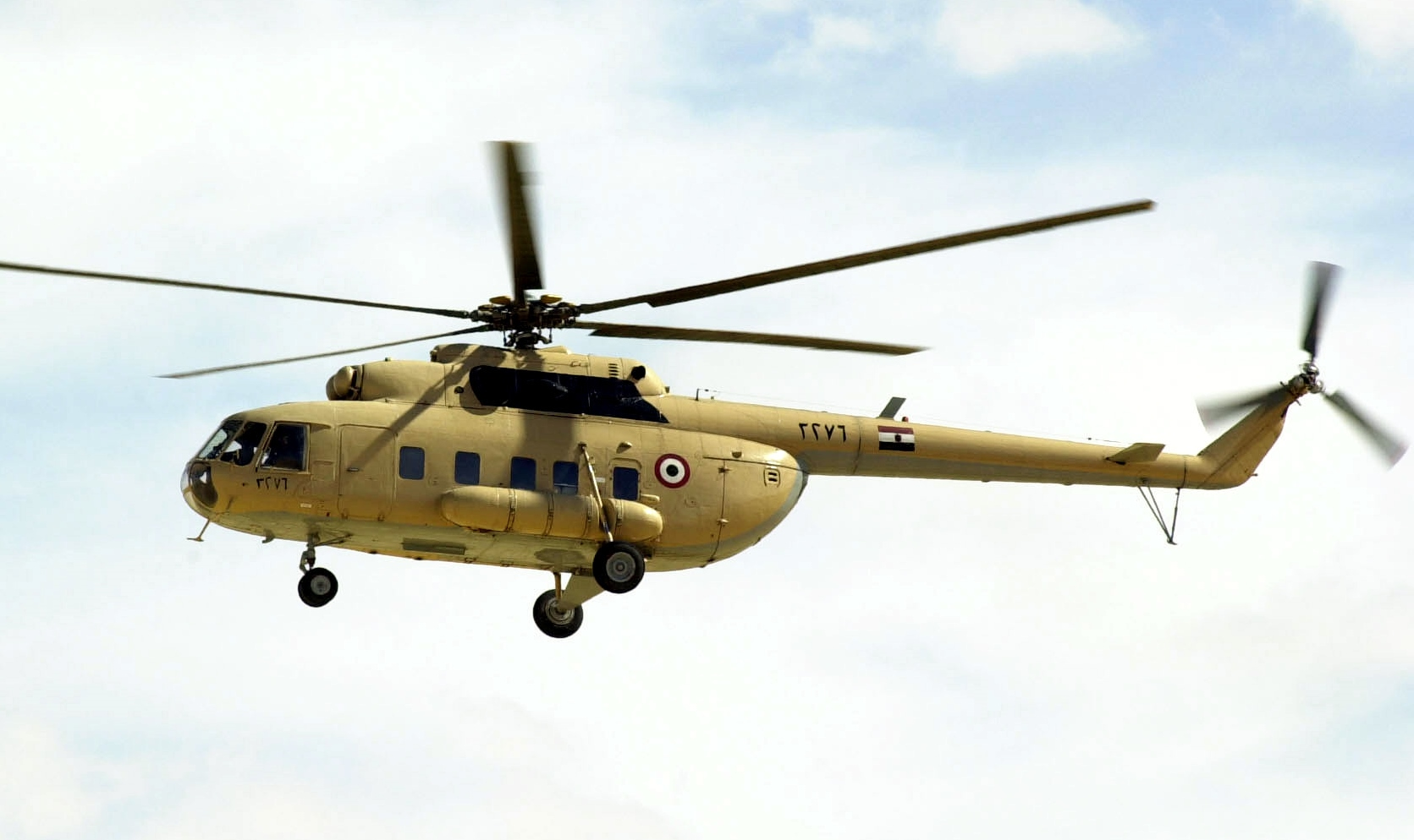 An Egyptian Mil Mi-8 Hip helicopter flies over Range A as the Combined Live fire Exercise (CALFEX) is conducted near Mubarak Military City.